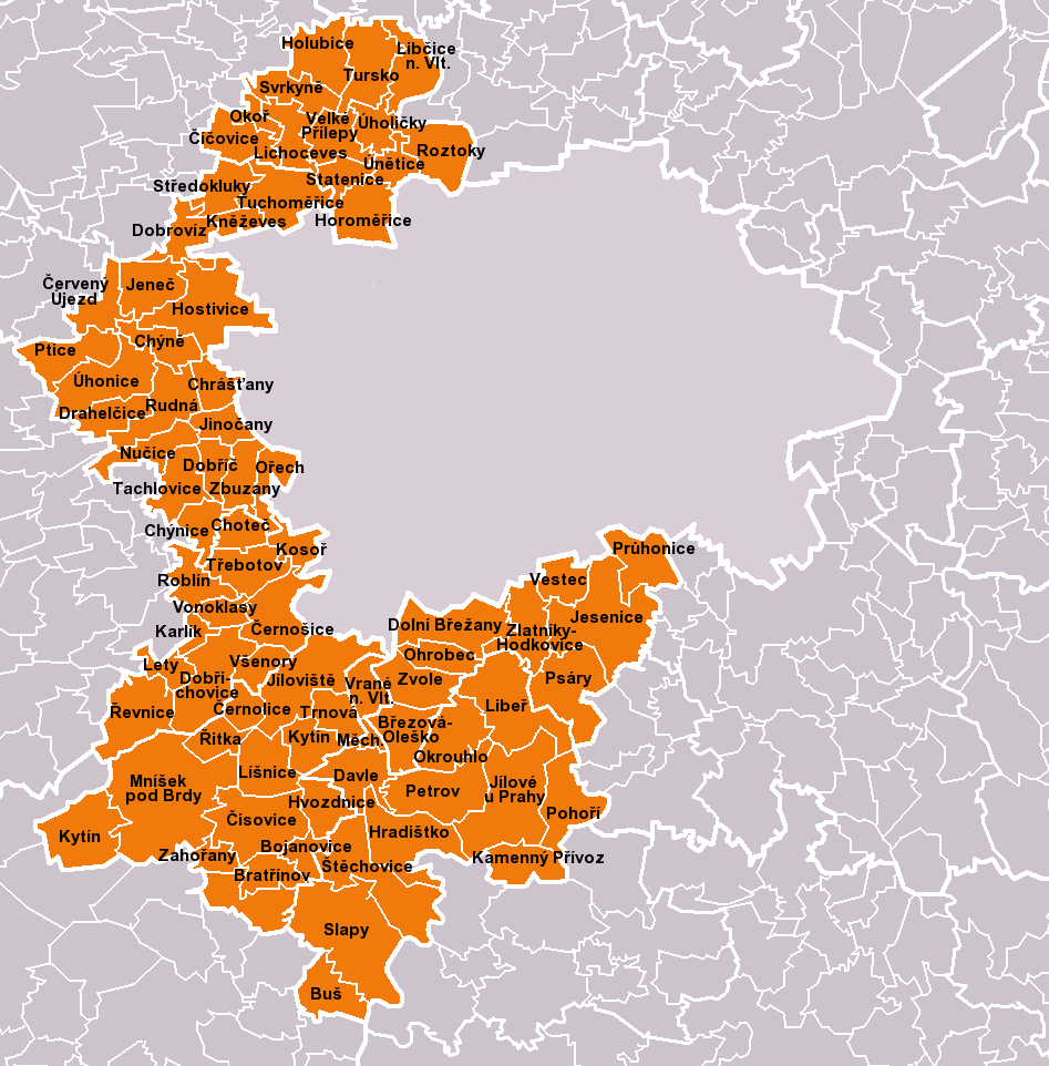 Municipalities of Prague-West District as of January 1, 2010 (79 municipalities in total). White lines of variable thickness show boundaries of municipalities, administrative areas, districts and regions.